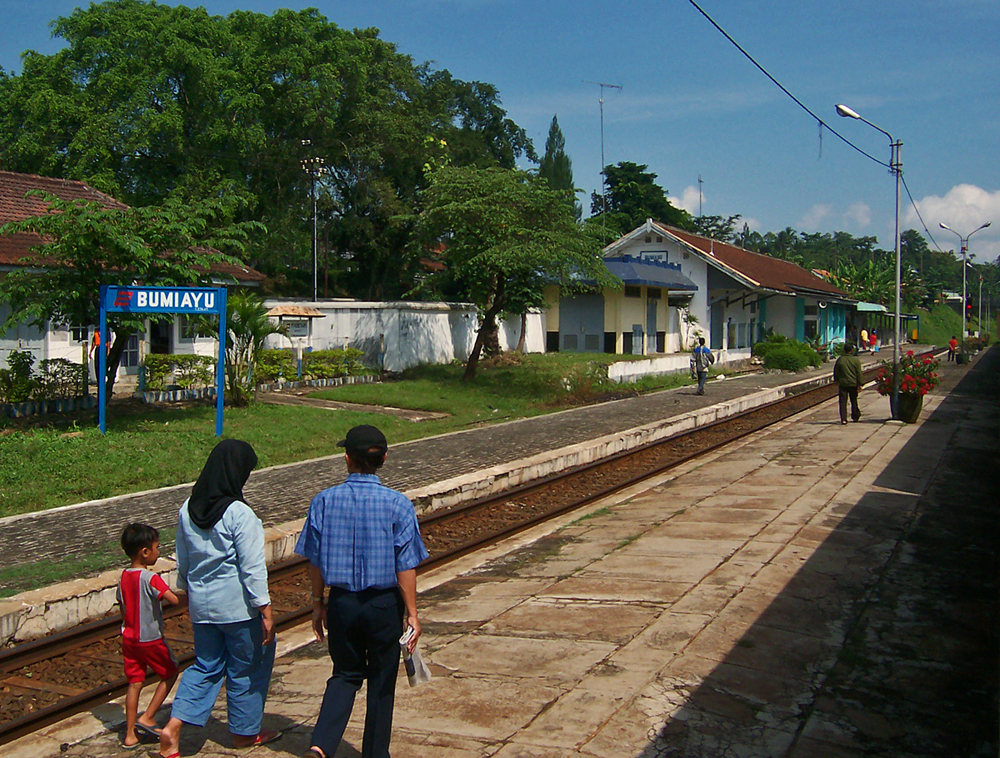 Bumiayu train station, Brebes, Central Java